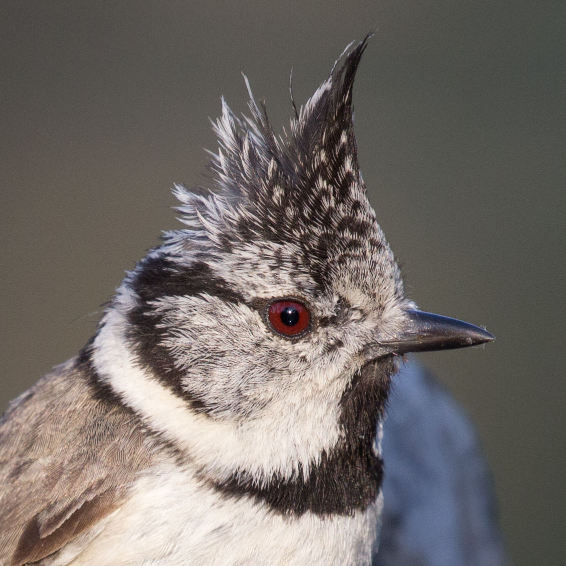 European crested tit (Lophophanes cristatus) in Cantalejo, Castile and León, Spain.